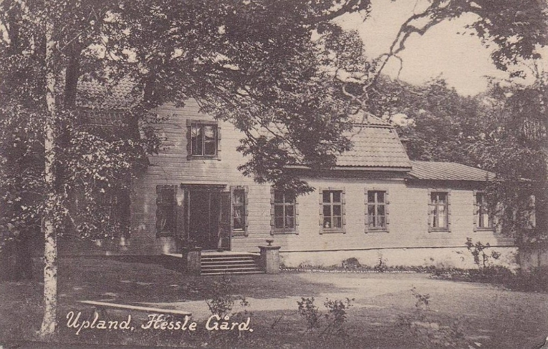 Hässle (or Hessle), Swedish mansion in Fittja socken in Uppland, postcard from 1916.